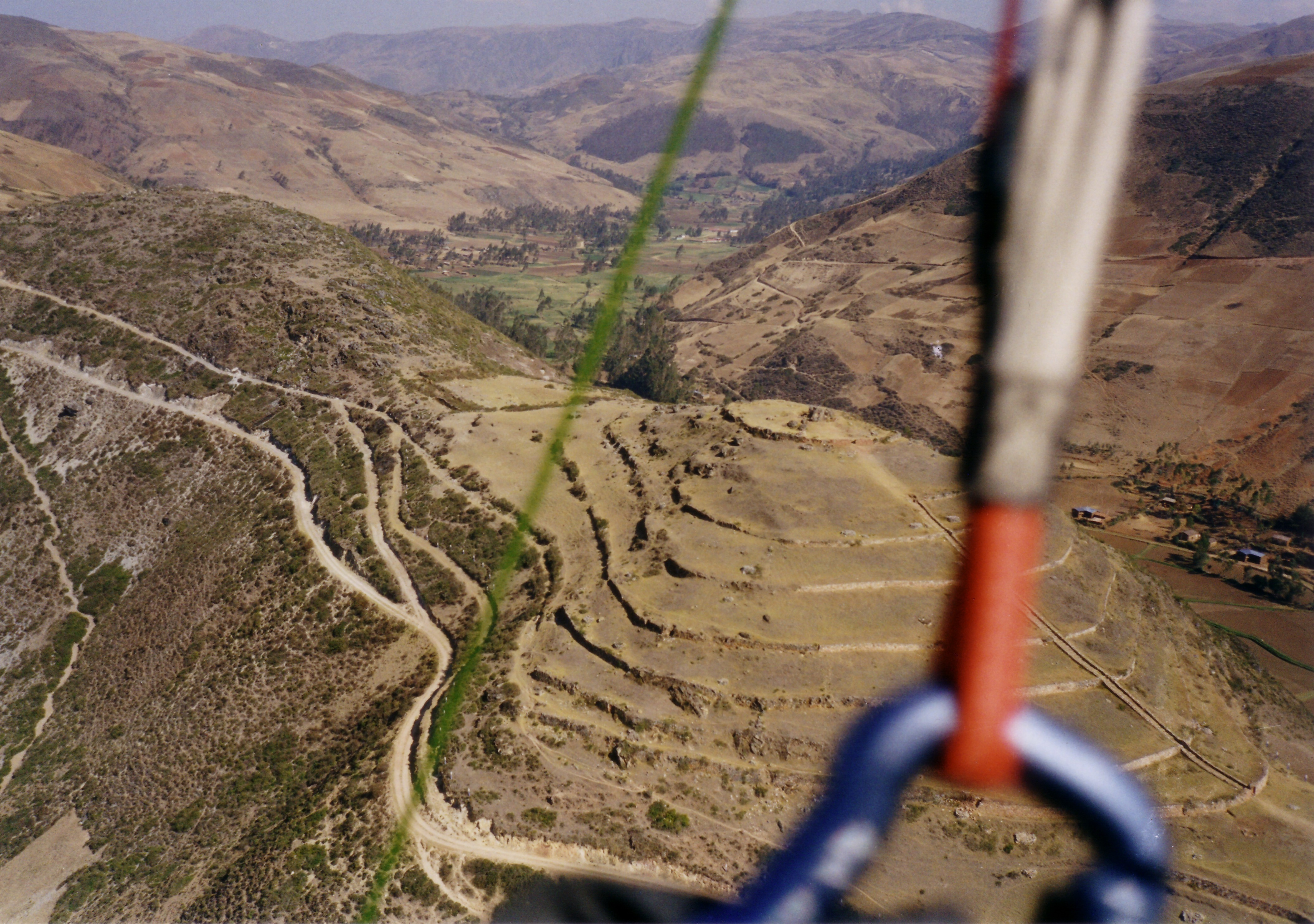 Paragliding over the ruins of Sondor